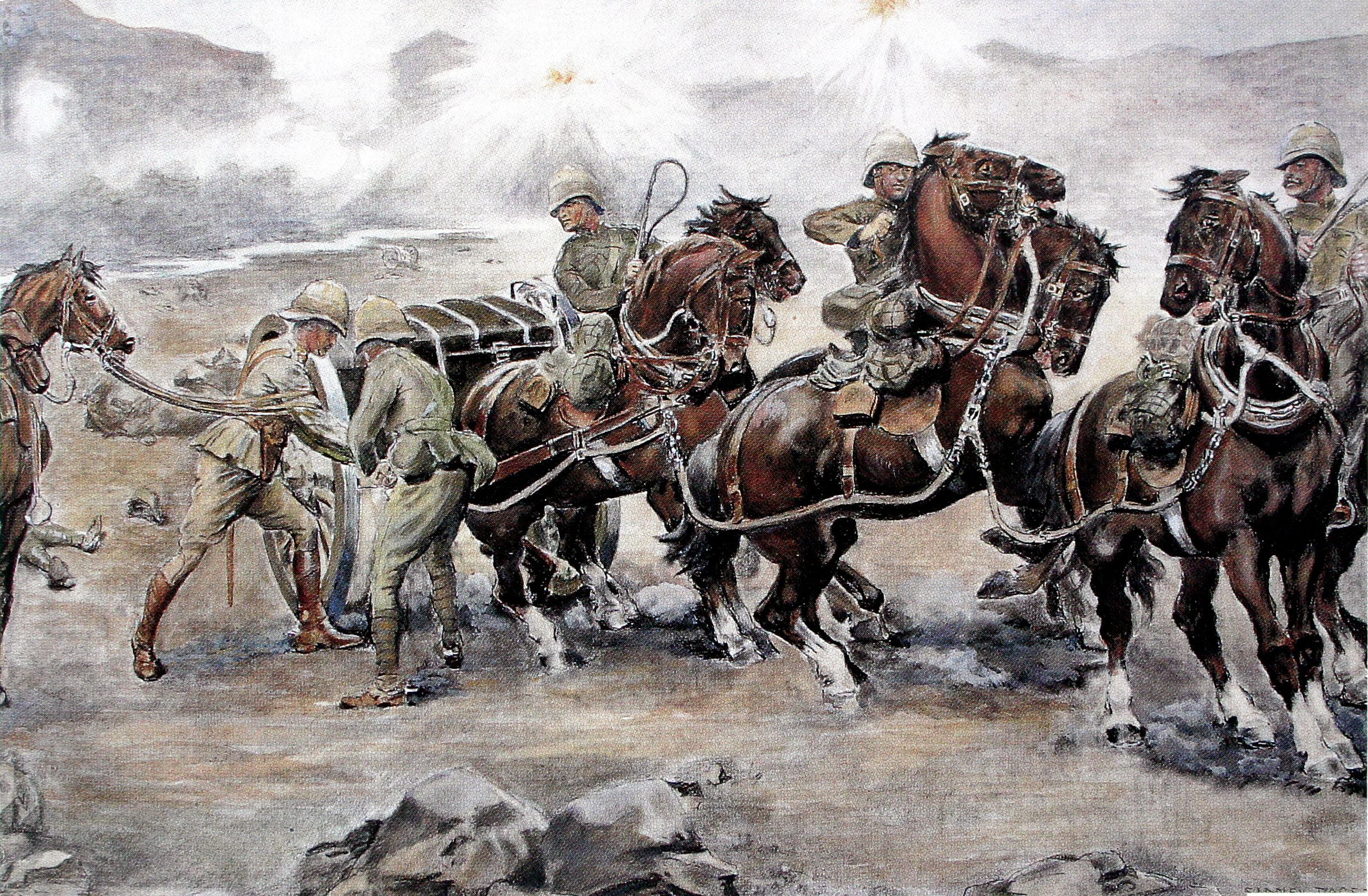 Watercolour "Saving the guns at Colenso" - Lord Roberts' son Freddy died in this engagement and was awarded a posthumous Victoria Cross